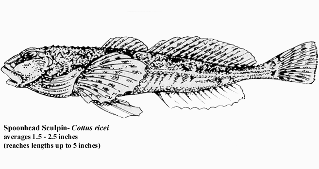 Illustration of the Spoonhead Sculpin which a fish native to North America and Canada.